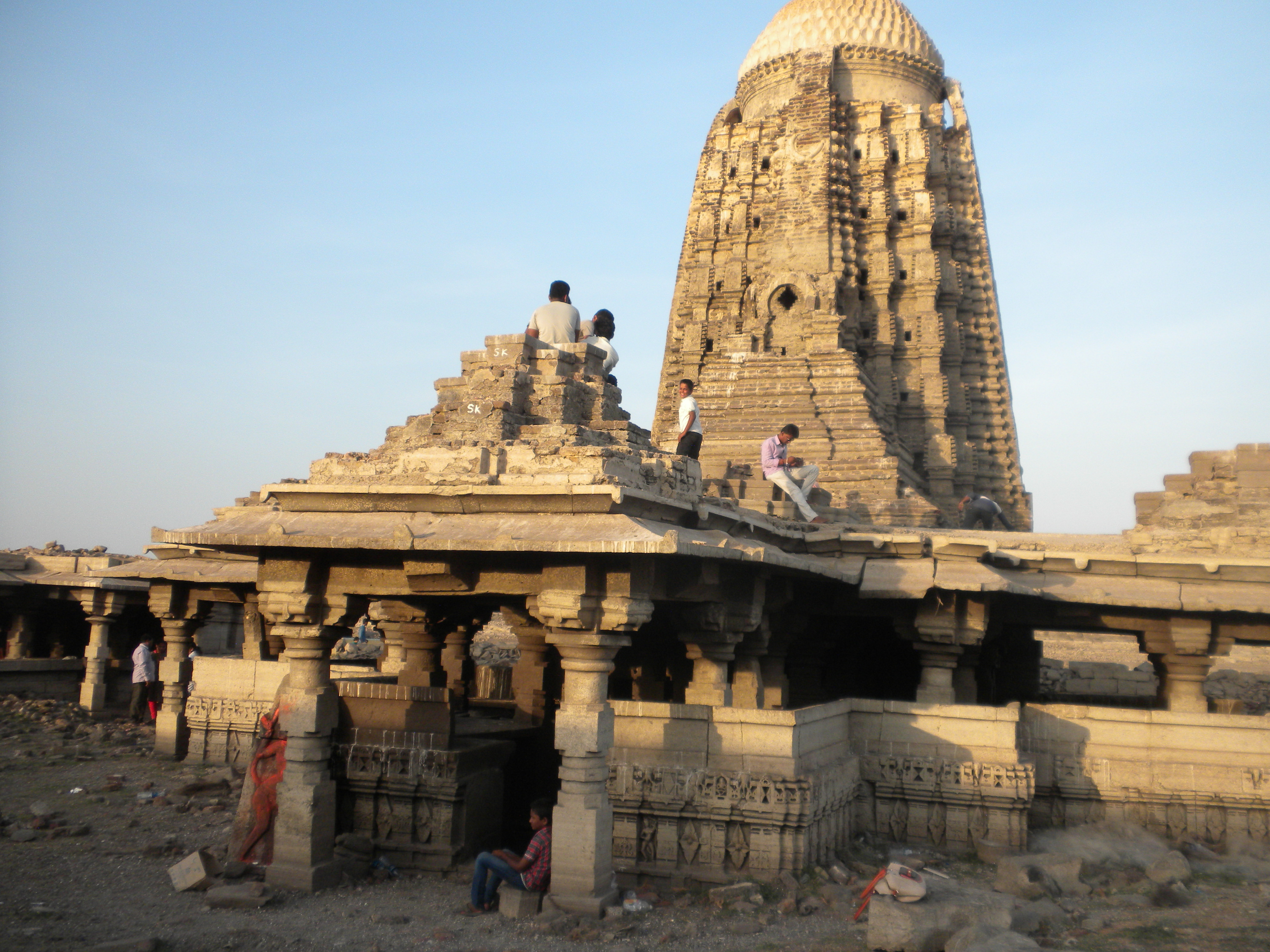 Lord Palasnath Temple at Ujani Dam, Maharashtra, India